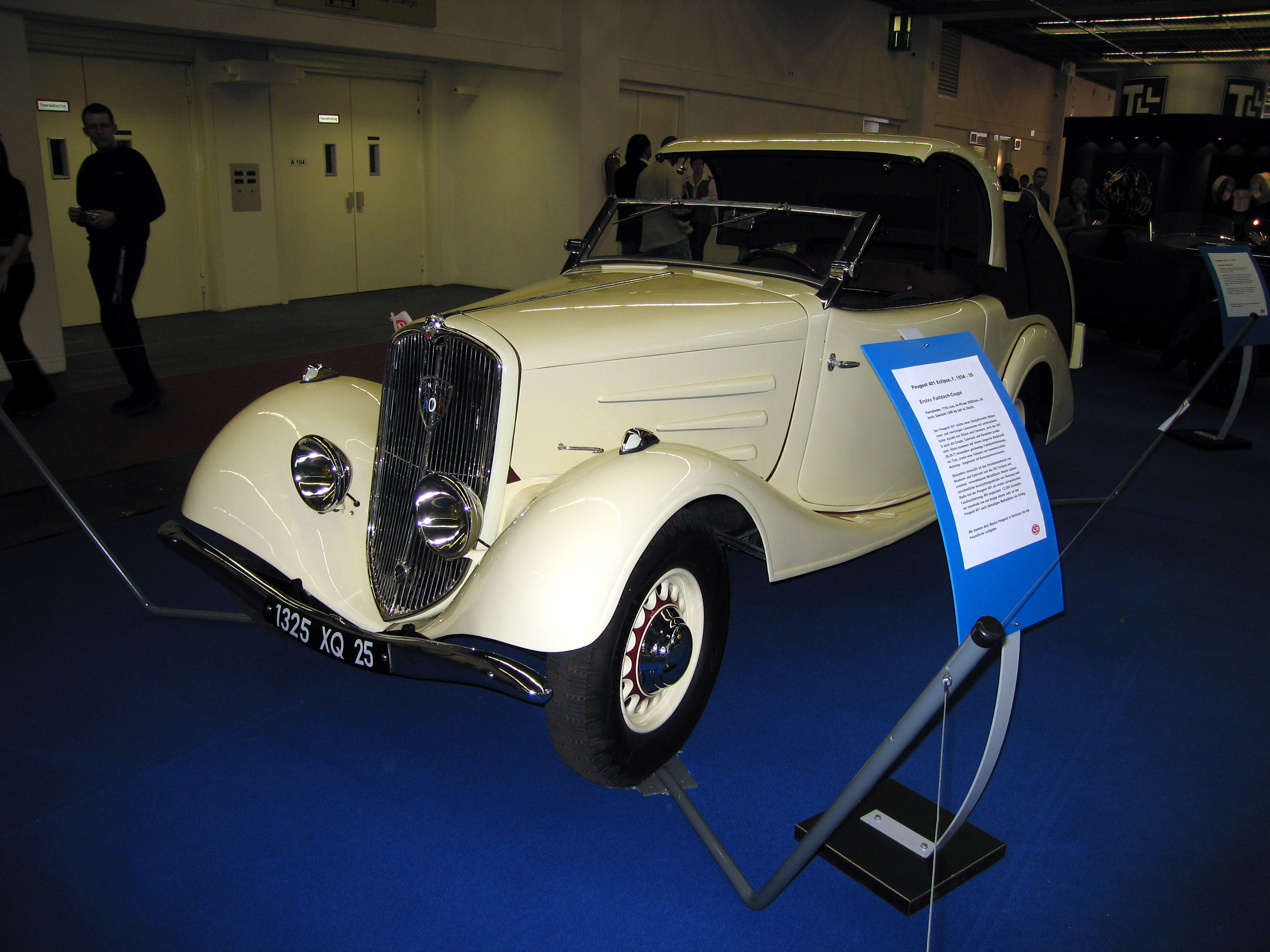 Peugeot 401 Eclipse at the IAA 2005